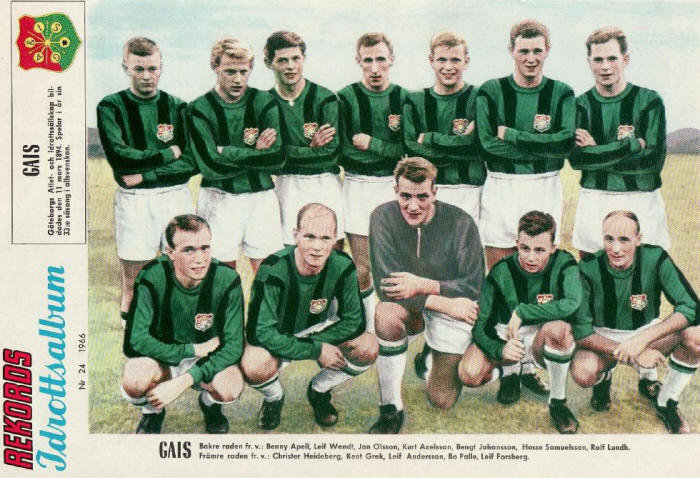 GAIS team photo from 1966.